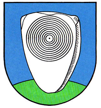 Coat of arms of the municipality of Colnrade